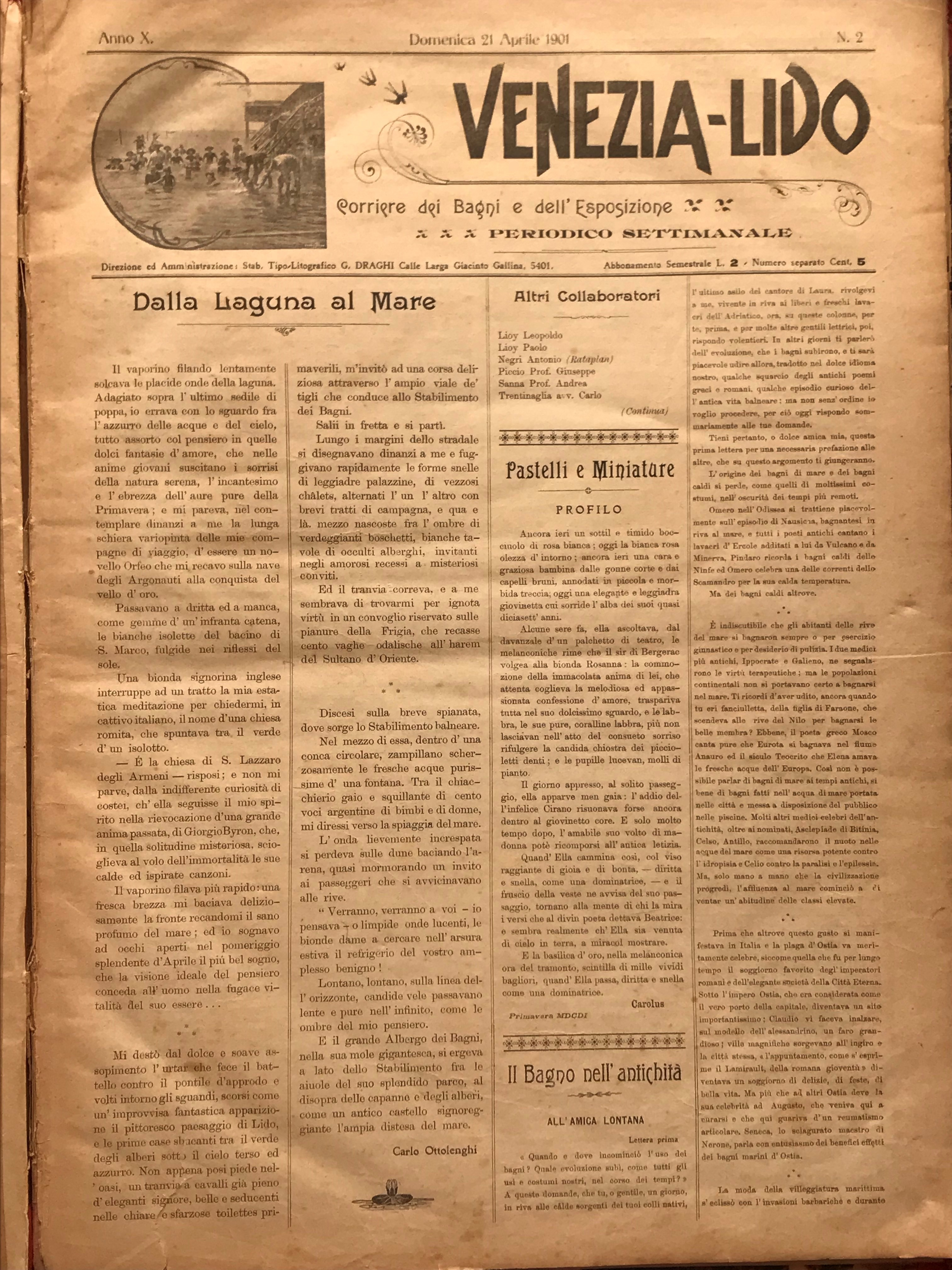 Venezia Lido, Sunday April 21, 1901, newspaper directed by Carlo Ottolenghi,Year 10 n. 2